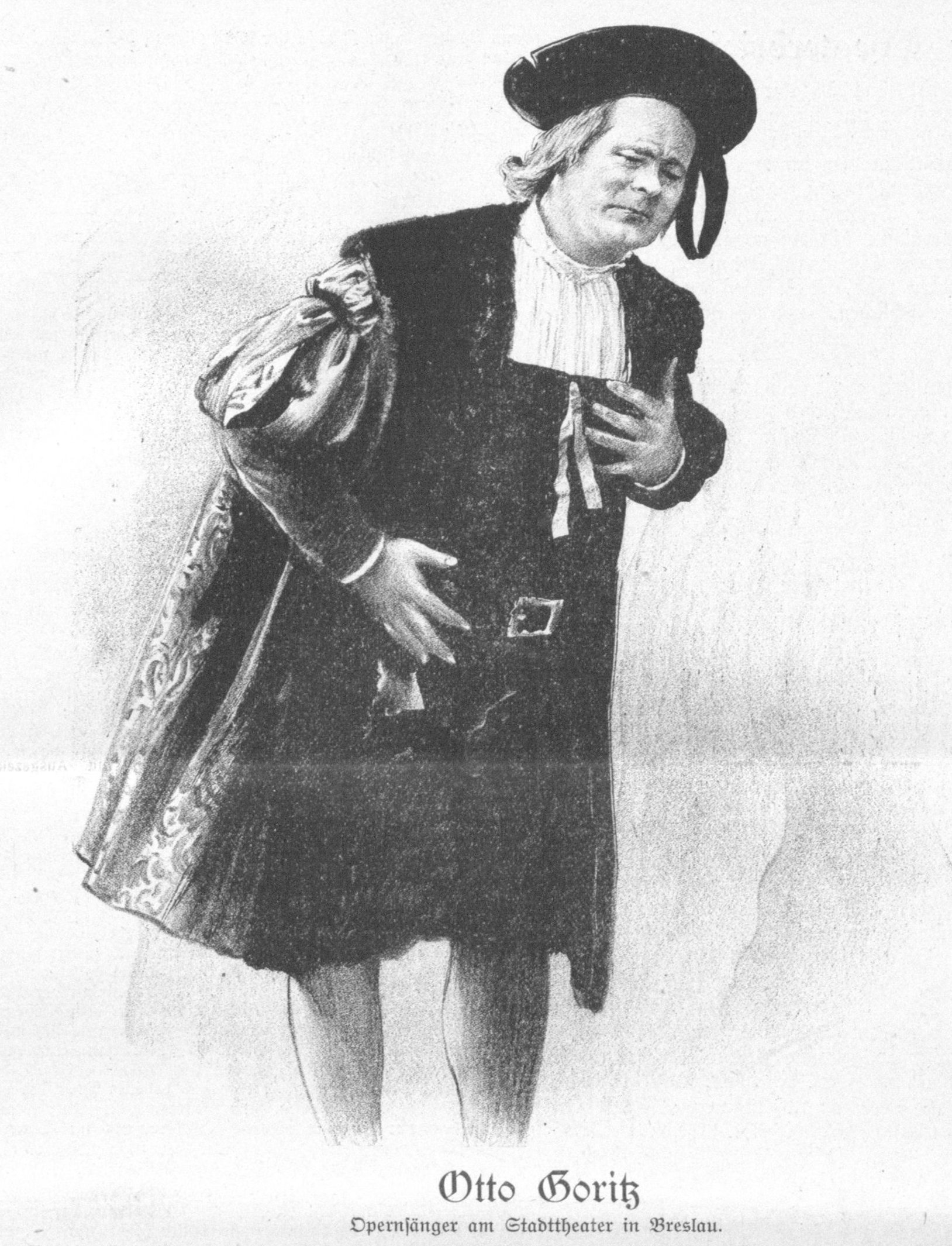 Portrait of Otto Goritz (1873-1929), German opera singer.